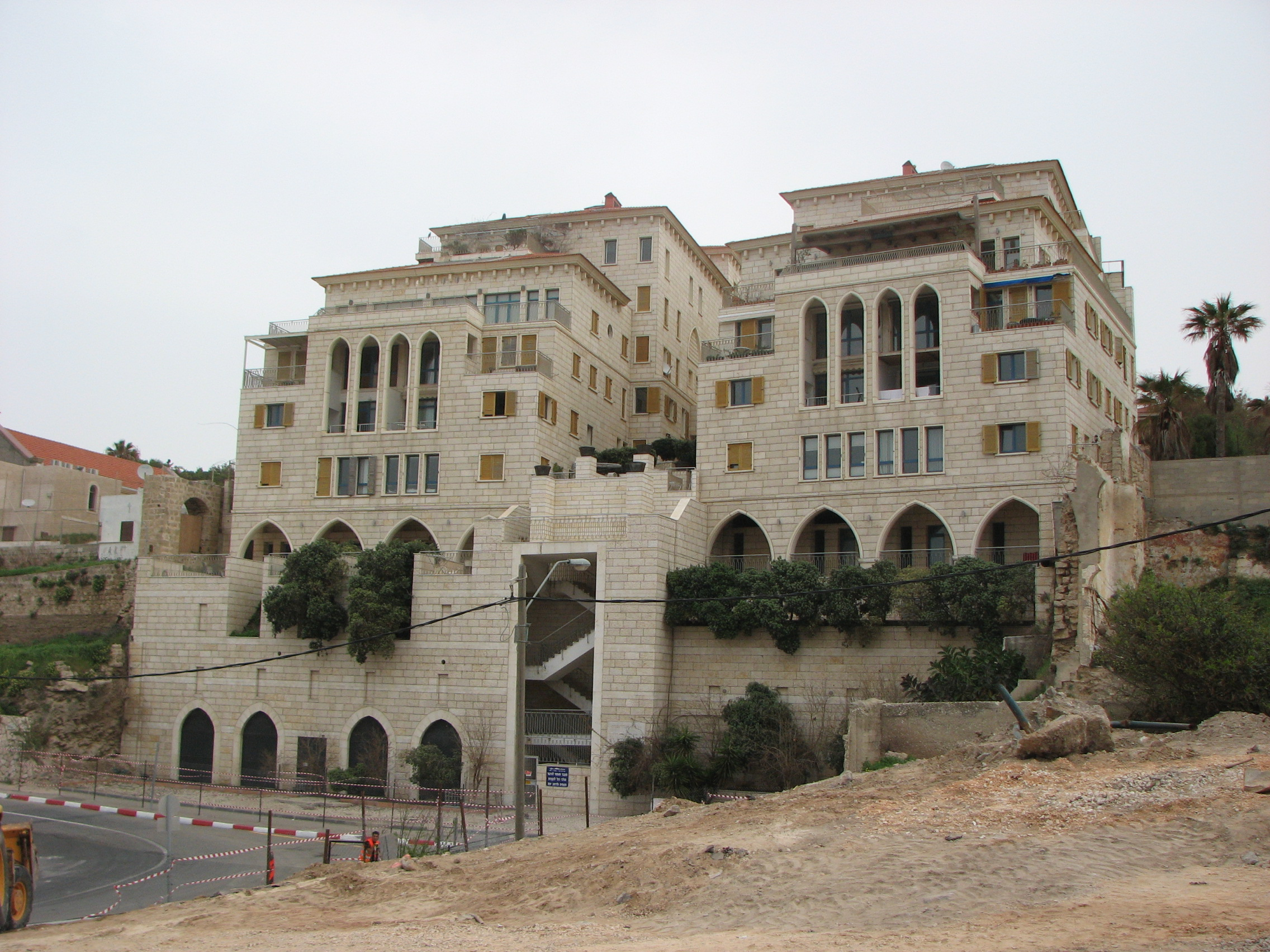 Andromeda Hill, view from Jaffa port, Tel Aviv